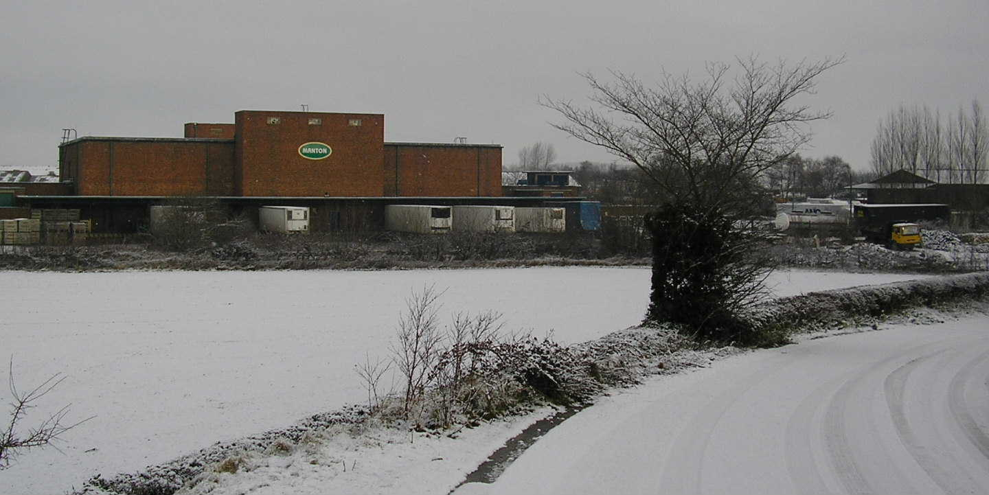 Goldsborough Cold Store at grid reference SE 391 573 between Flaxby and Goldsborough|, North Yorkshire. It is currently operated by Manton Transport Ltd. The York to Harrogate railway line runs in front of the store and originally had a siding serving the store. This is one of forty cold stores built during World War II beside railways. Description at Subterranea Britannica.